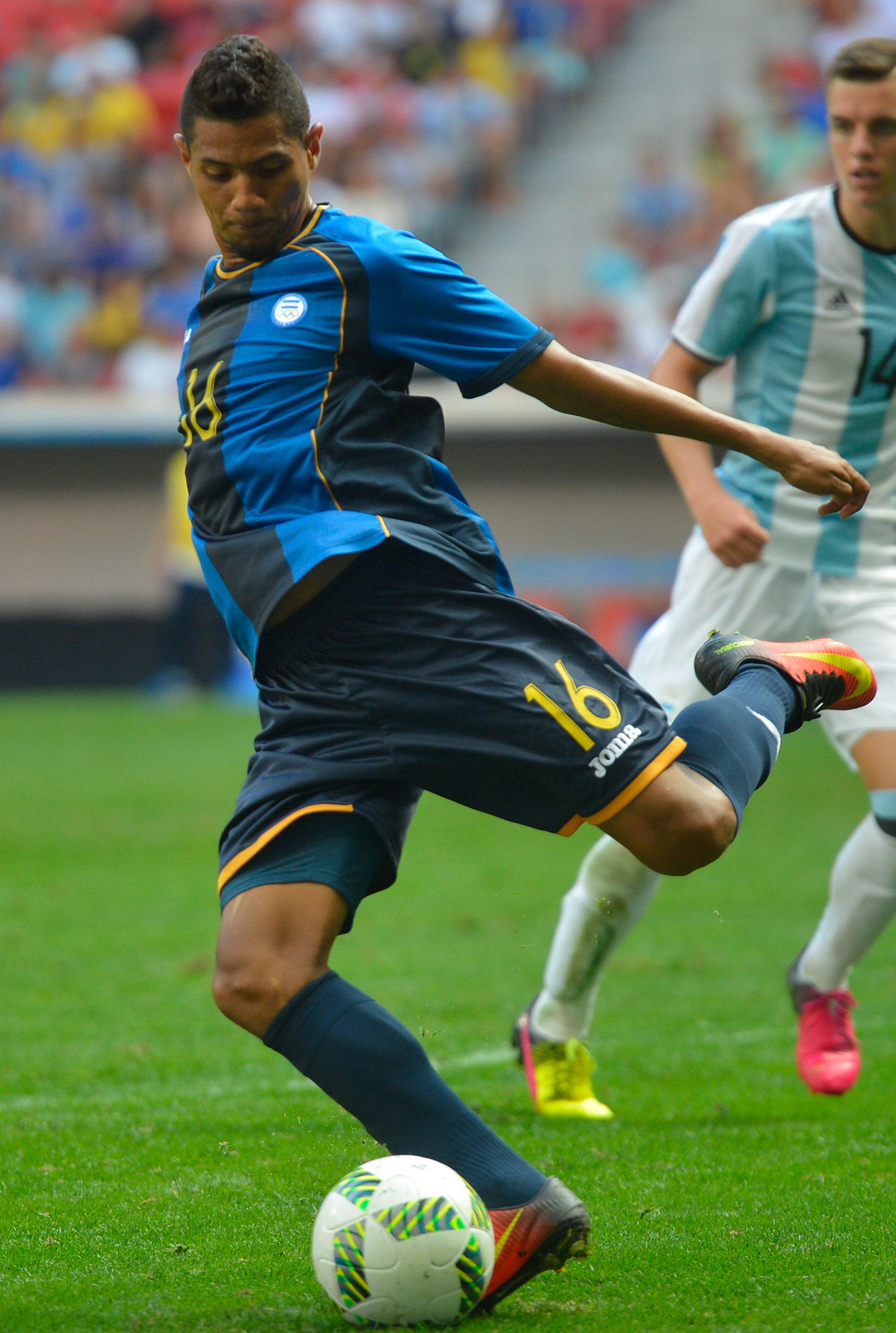 Brasília - Equipes masculinas do futebol olímpico da Argentina e Honduras jogam no Estádio Mané Garrincha (Gustavo Gomes/Agência Brasil)